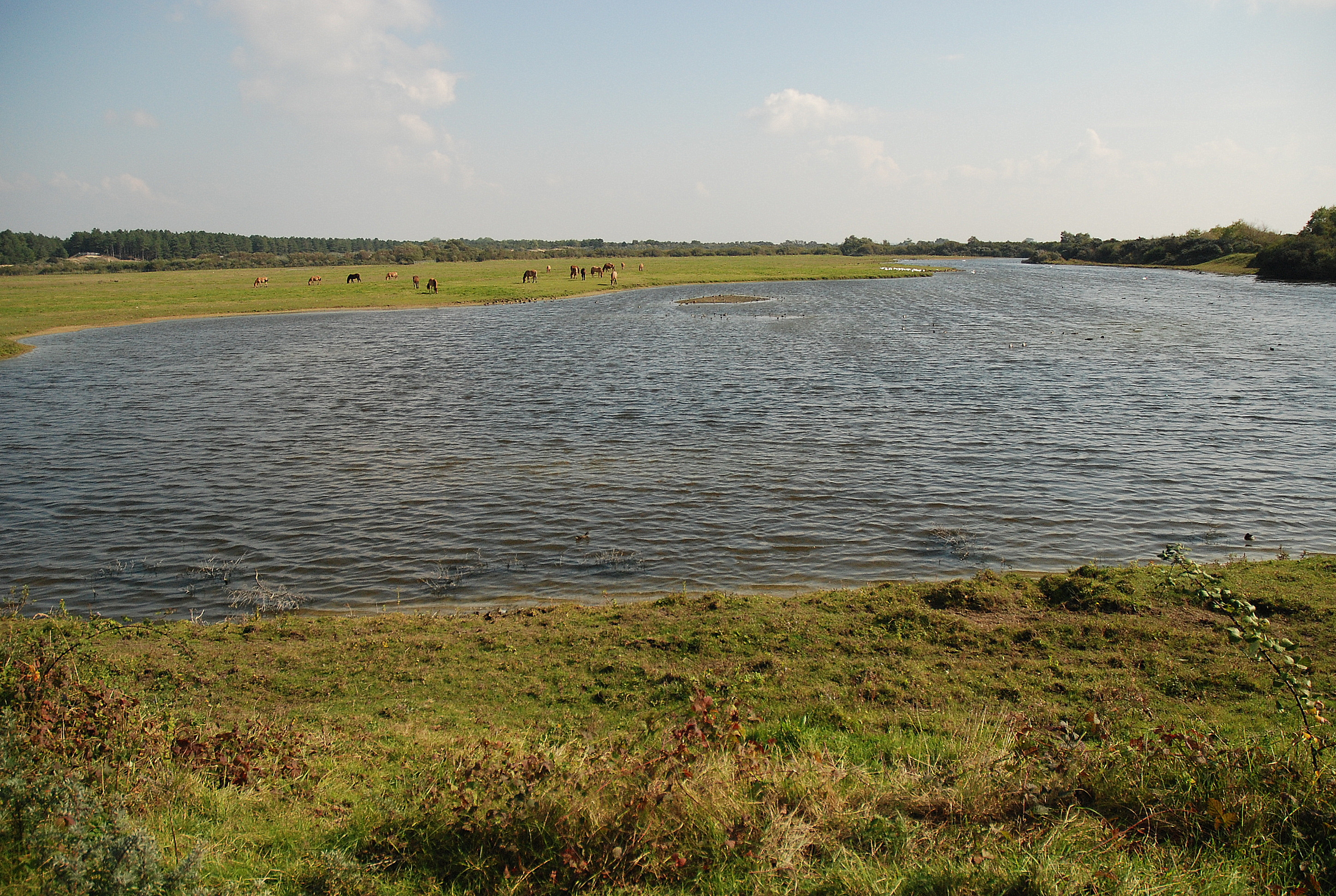 Marquenterre, France